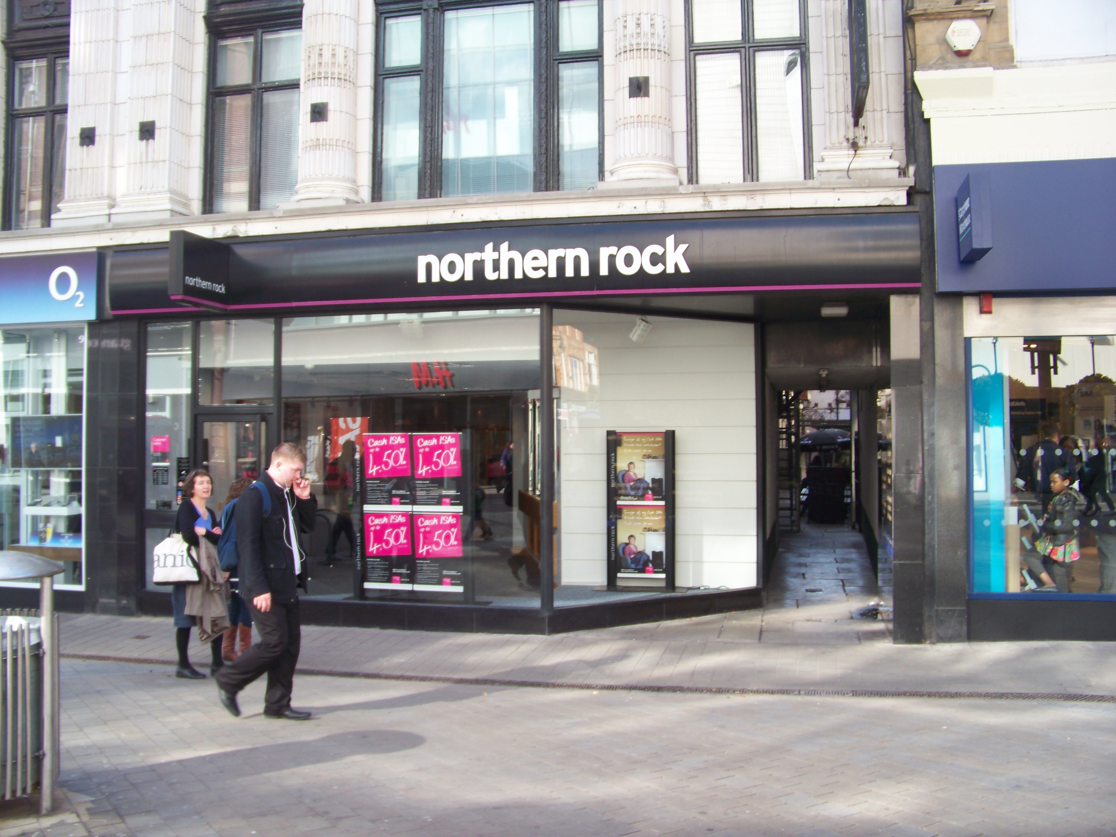 Northern Rock on Briggate in Leeds. Taken on the afternoon of Monday the 11th of April 2011.